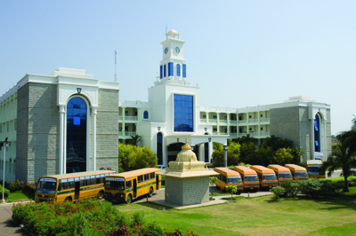 Photo